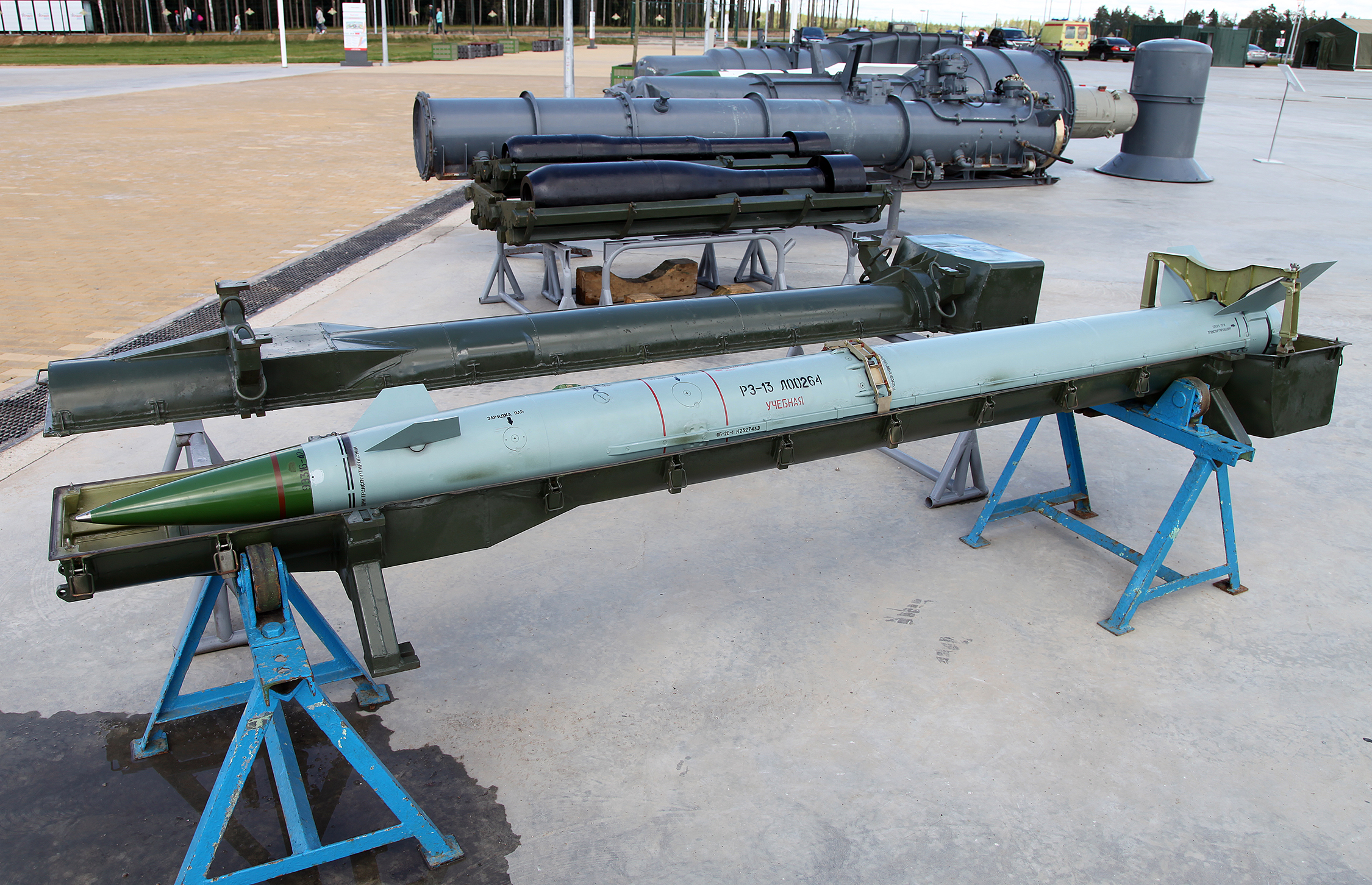 9M33 surface-to-air missile